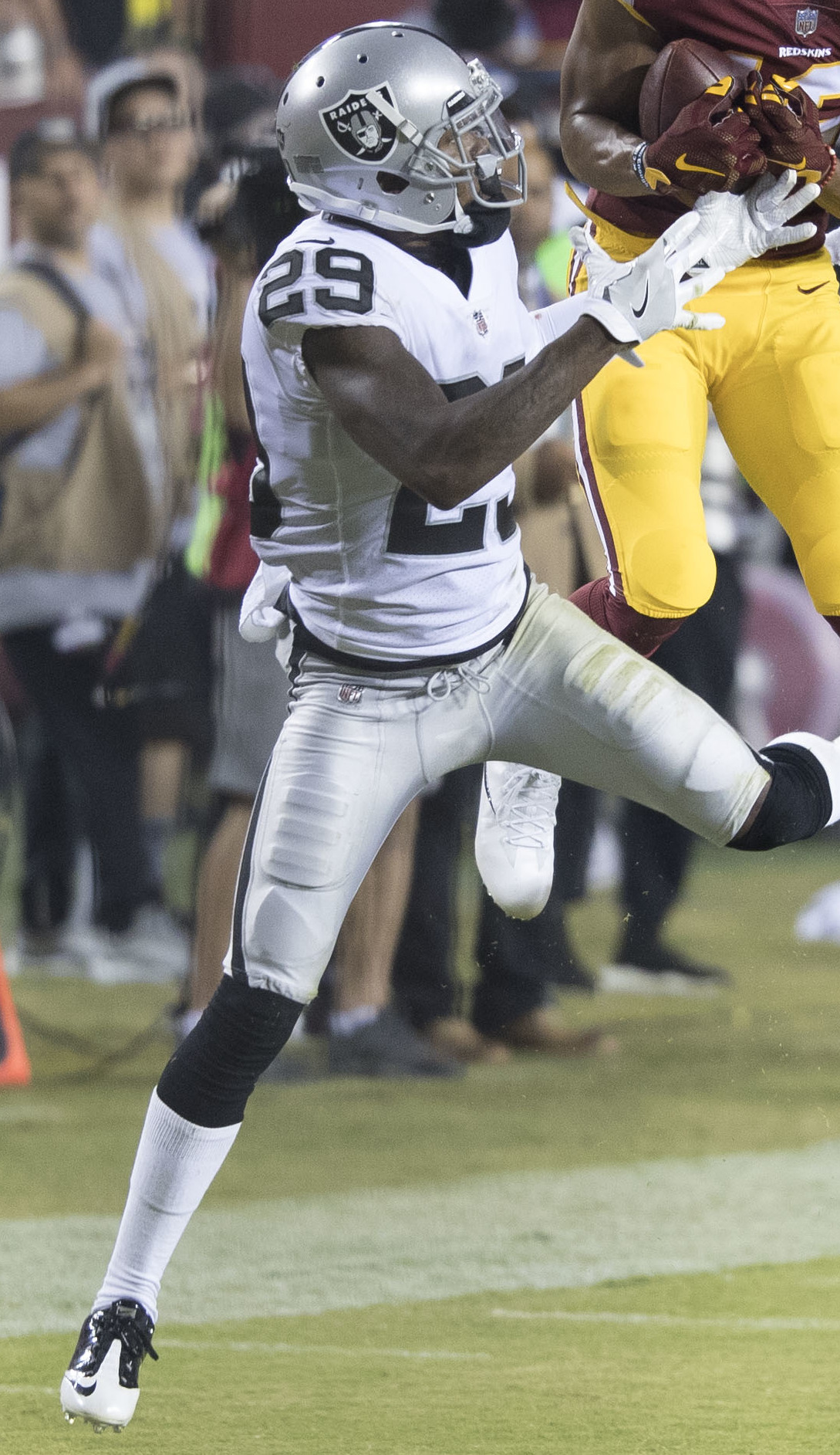 Josh Doctson of the Washington Redskins makes a catch for a touchdown over David Amerson of the Oakland Raiders in a game at FedExField on September 24, 2017 in Landover, Maryland.